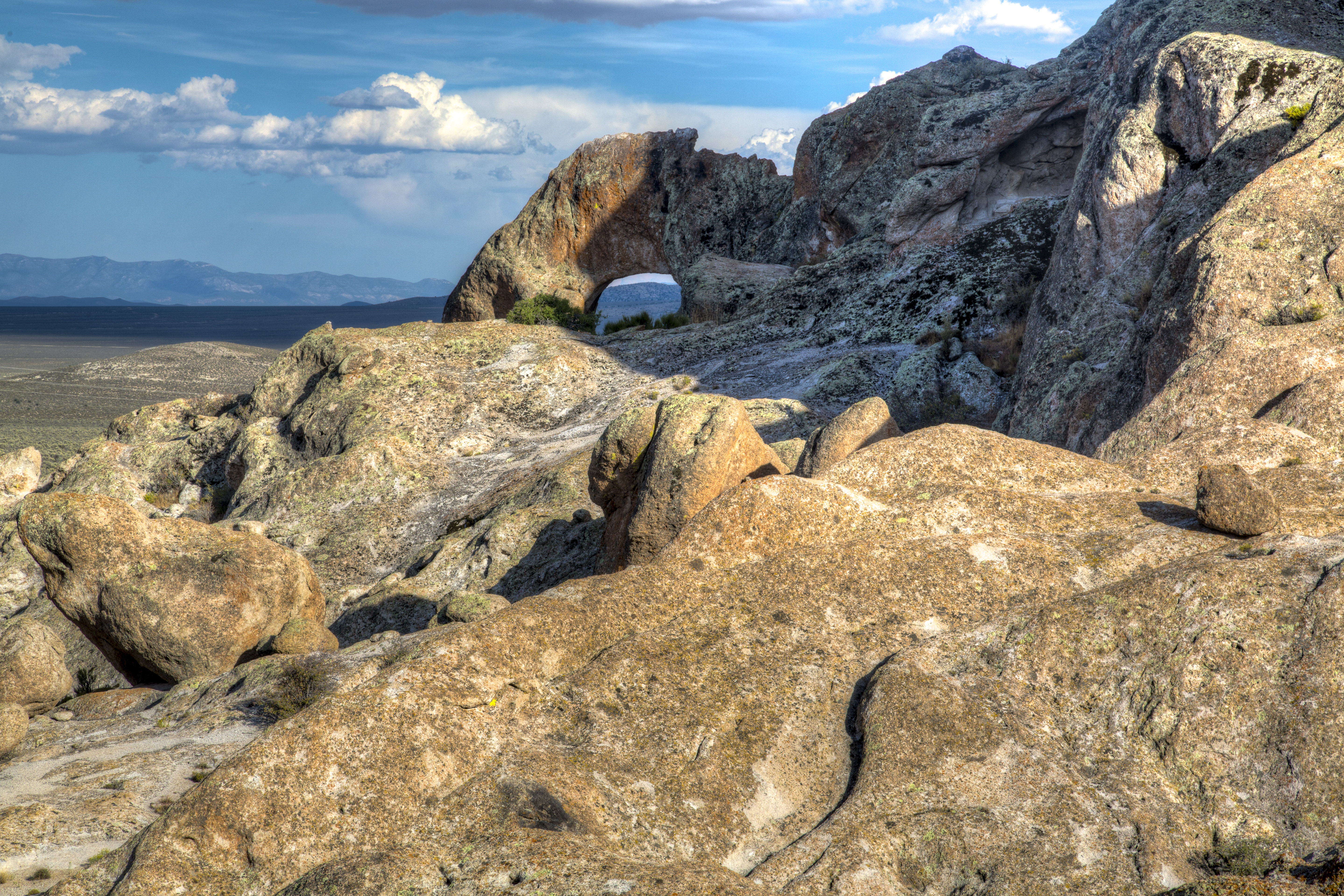 BLM Photo Bob Wick